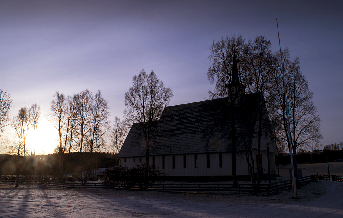 Storsteinnes kapell / Chapel from 1968 in Balsfjord, Troms, Norway. Wooden church, Diocese of Nord-Hålogaland.